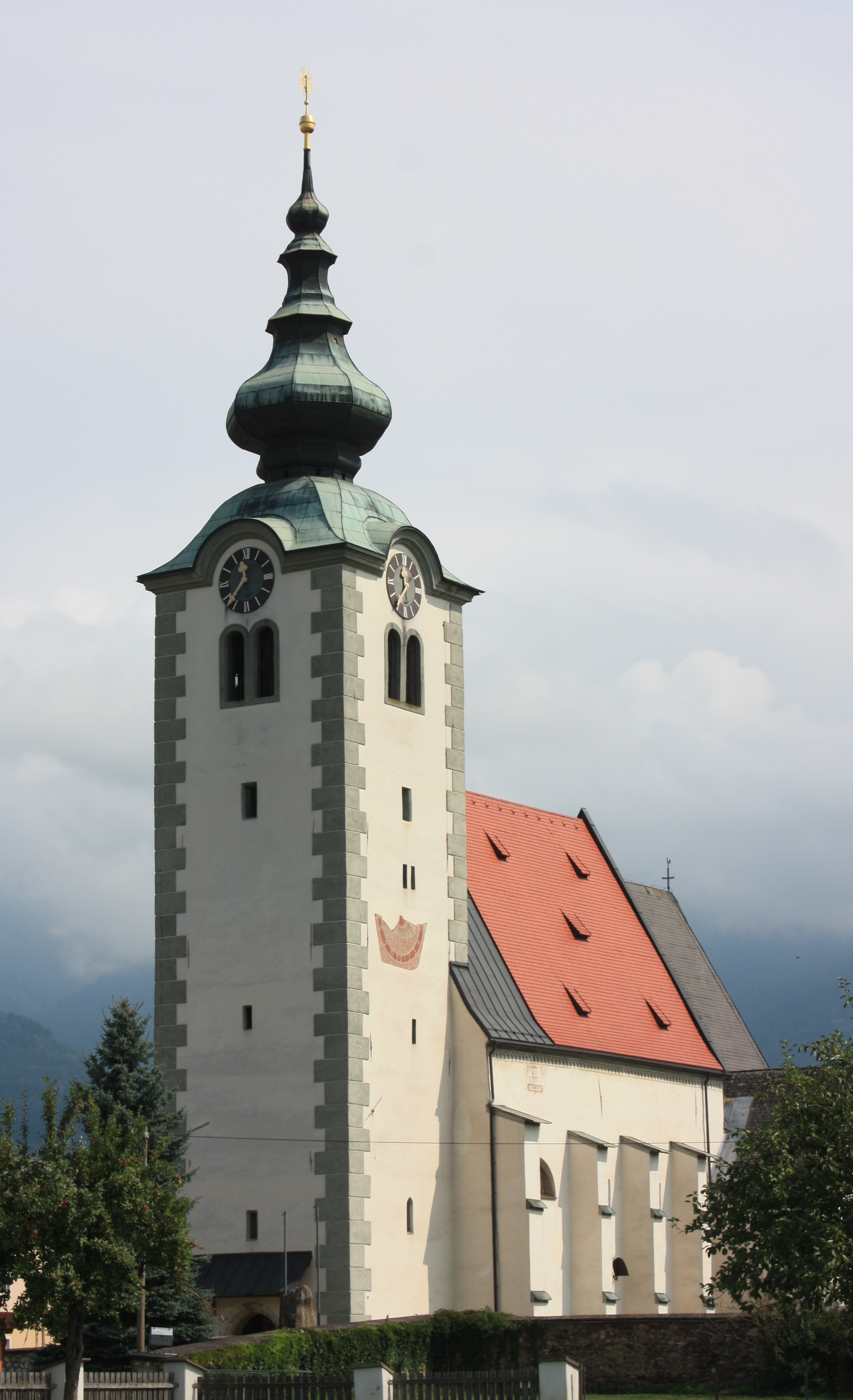 Parish church "Assumption of Mary" Locality: Maria Rojach Community:Sankt Andrä